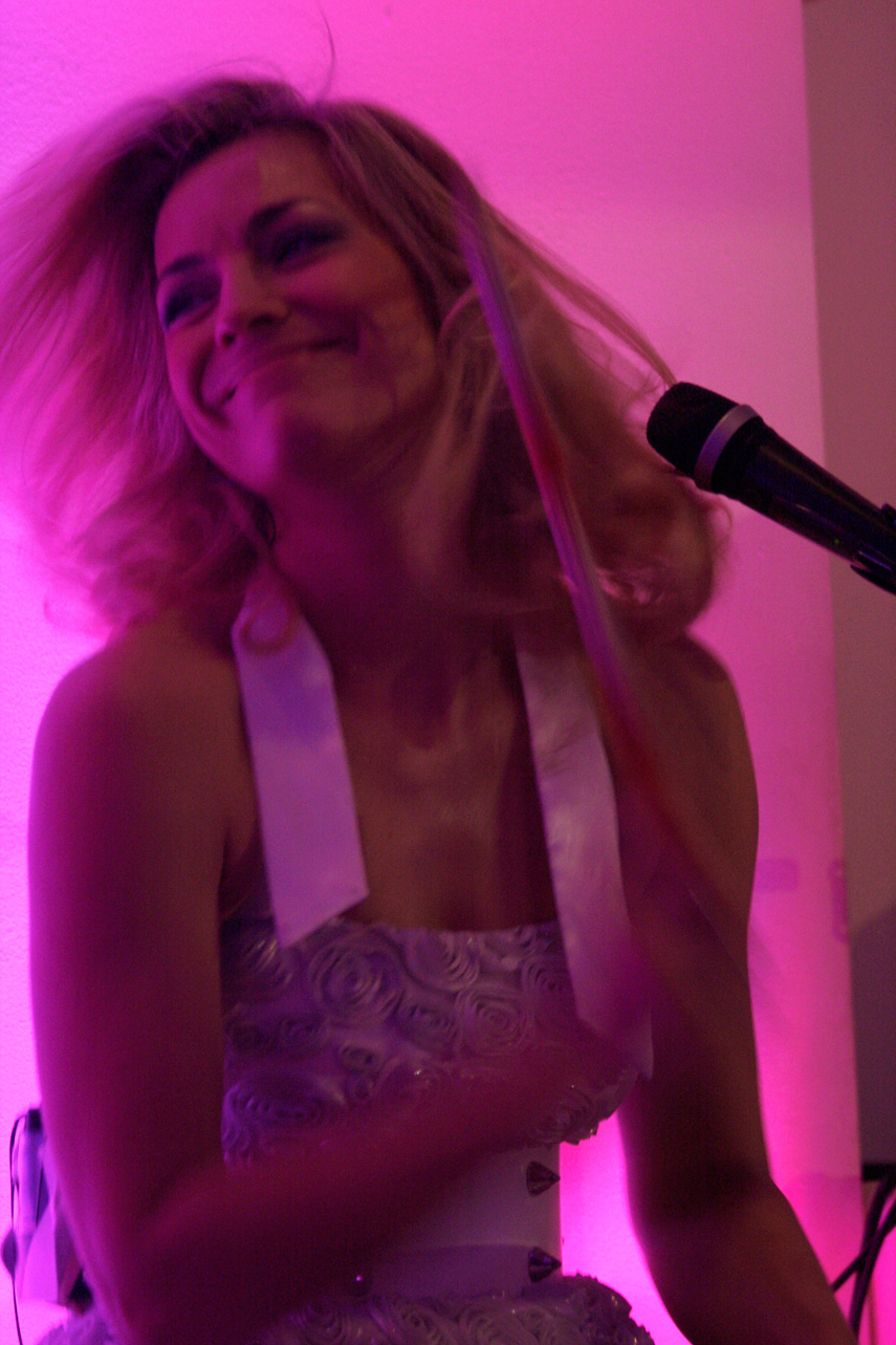 Austrian band Zweitfrau, album release of Date Me at the phoenix supperclub in Vienna.